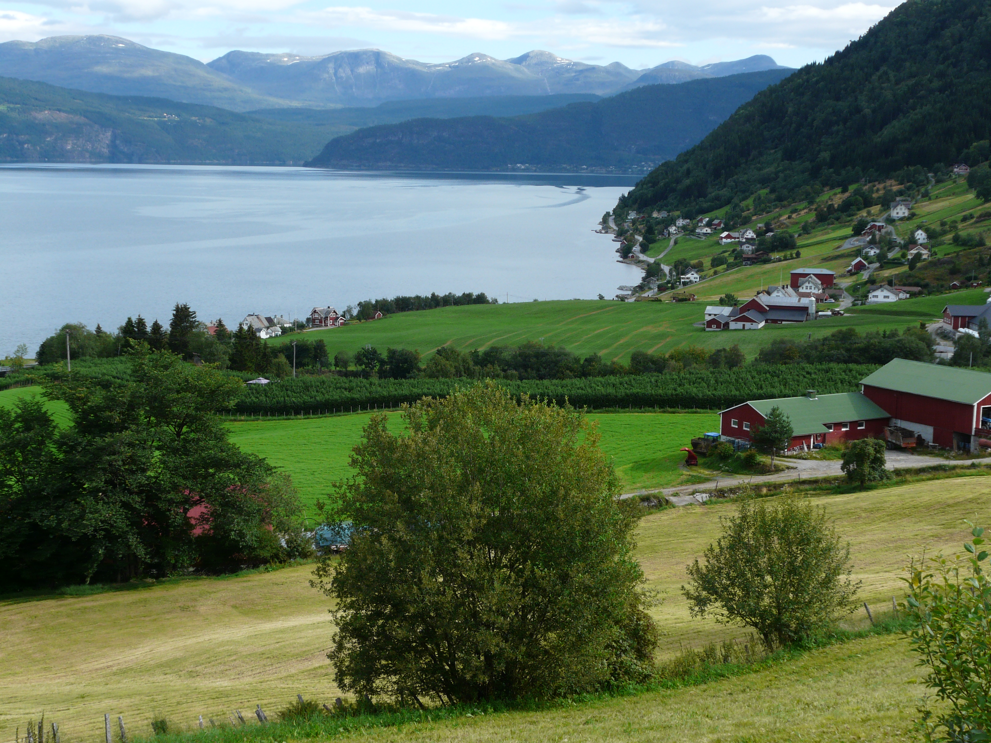 Utvik